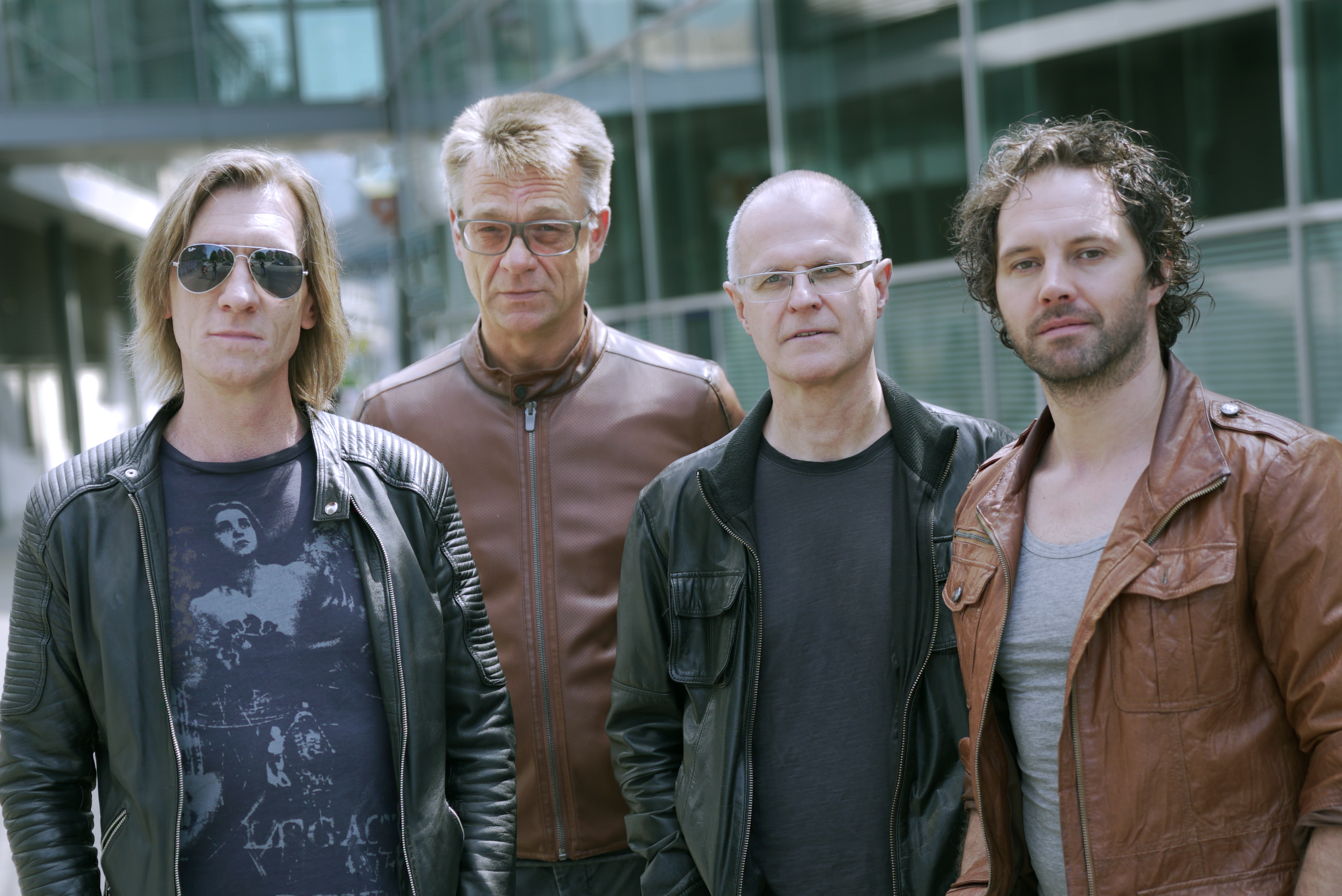 Anyonés daughter 2018